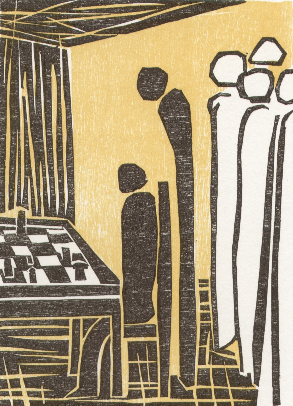 One of six woodcuts to the chess story The Royal Game by Stefan Zweig. Artist: Elke Rehder, Germany.